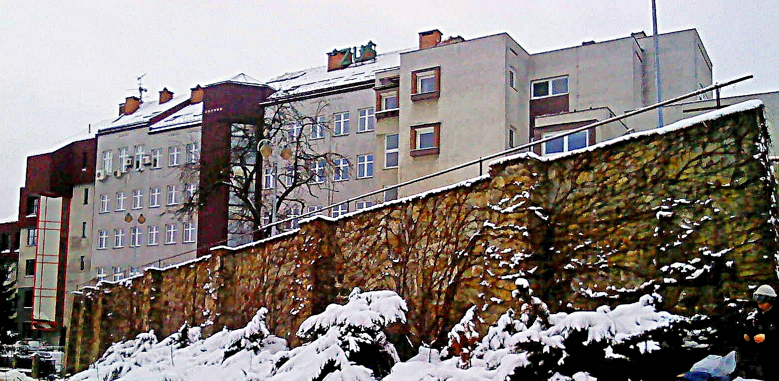 City Walls in Jaslo Poland